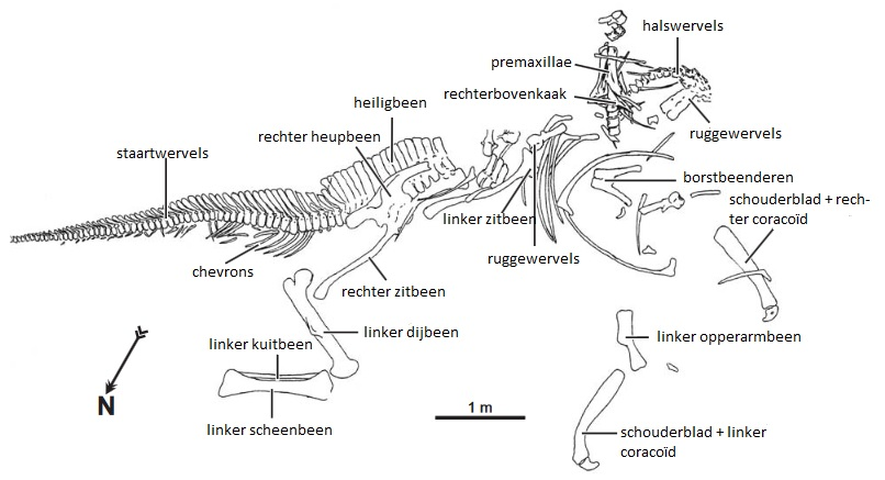 In situ skeleton of holotype AEHM 2-845 of Olorotitan arharensis Godefroit, Bolotsky & Alifanov, 2003. Upper Cretaceous of Kundur, Russia.